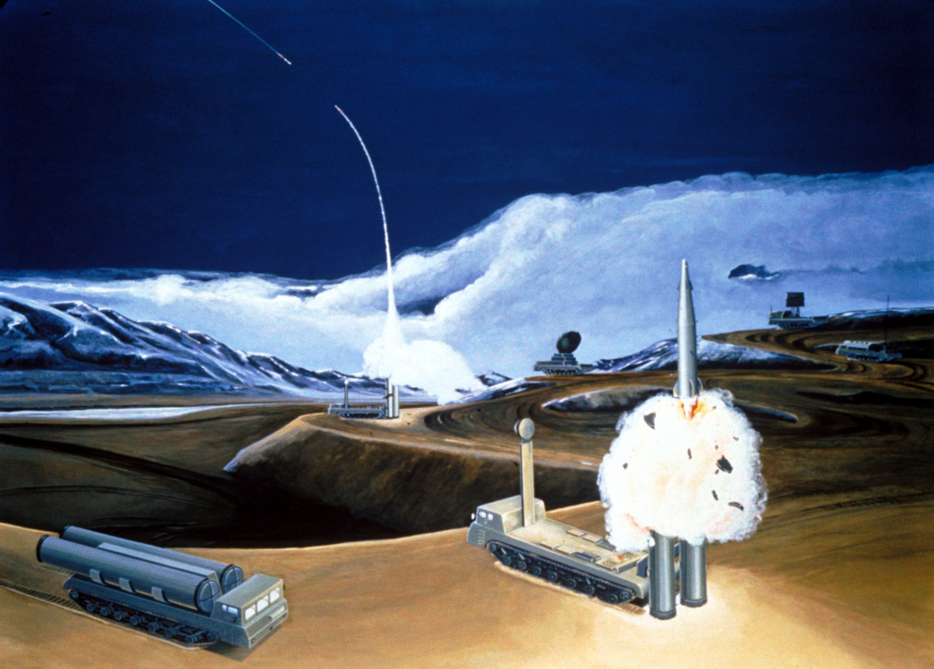 SOVIET SA-12B GIANT AIR DEFENSE SYSTEM The SA-12B, developed in the 1980s, was an accurate and long range air defense system for use against aircraft, some stand-off command and control platforms, and possibly some types of cruise and ballistic missiles.